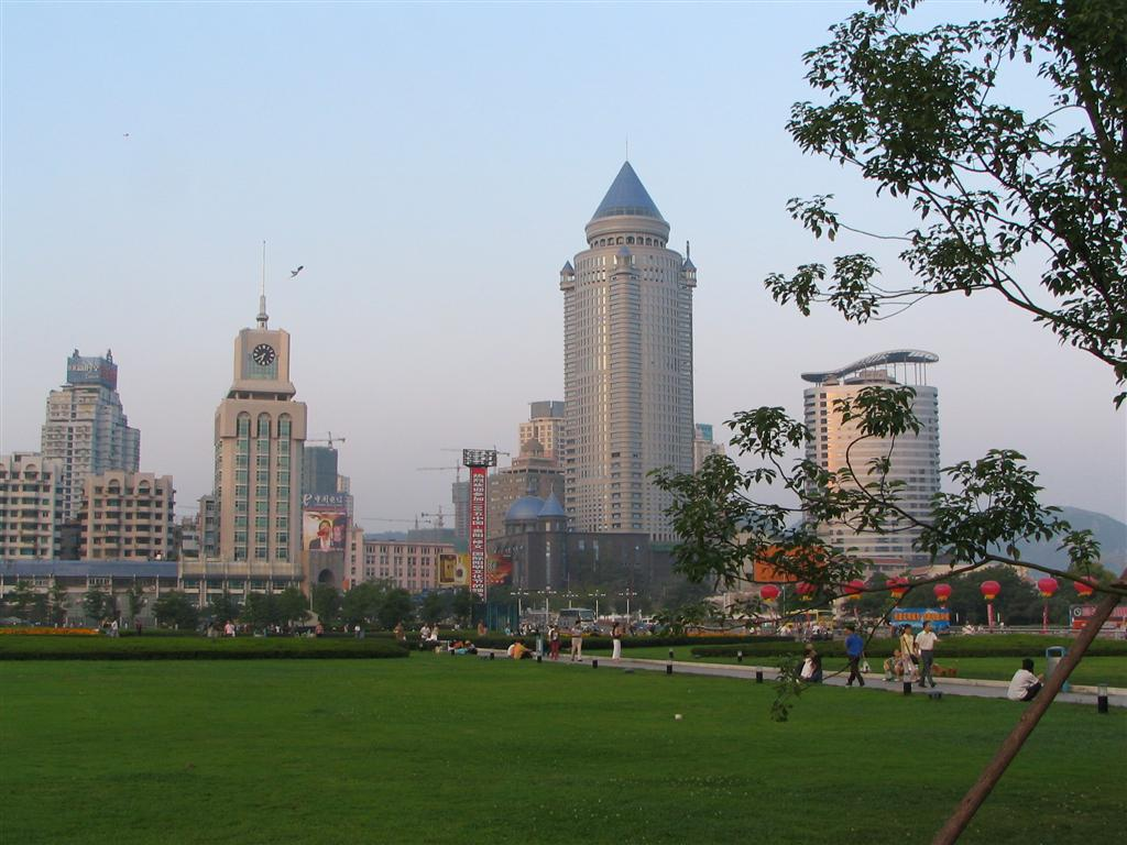 Park & buildings in Guiyang, Guizhou, southern China